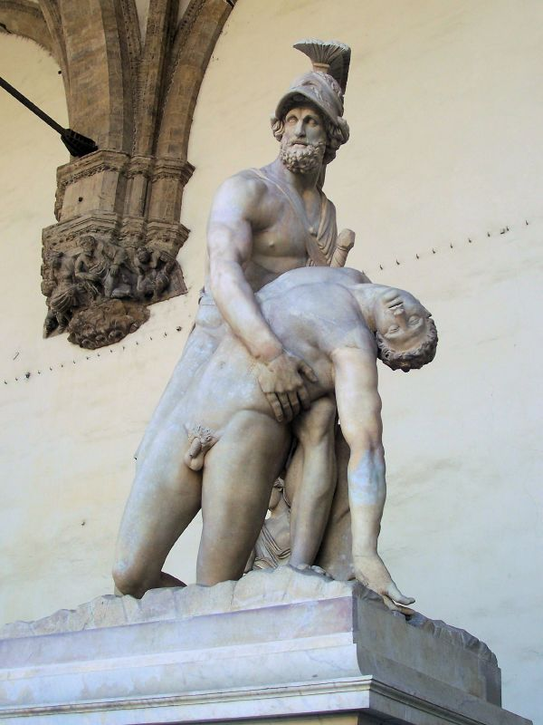 The so-called "Pasquino Group" (several replicas of which are known), perhaps Menelaus bearing the corpse of Patroclus. Marble, Roman copy of the Flavian Era after a Hellenistic original of the 3rd century BC, with modern restorations. Found in Rome; in the Medici collections in Florence, 1570; installed in the Loggia dei Lanzi since 1741.